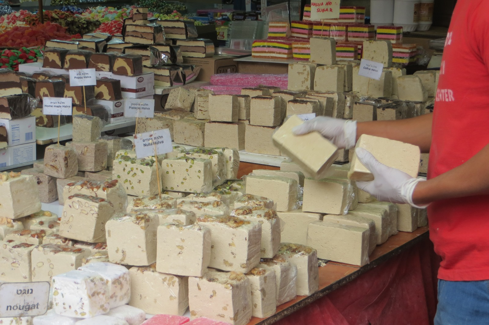 Carmel Market in Tel - Aviv, Cities in Israel